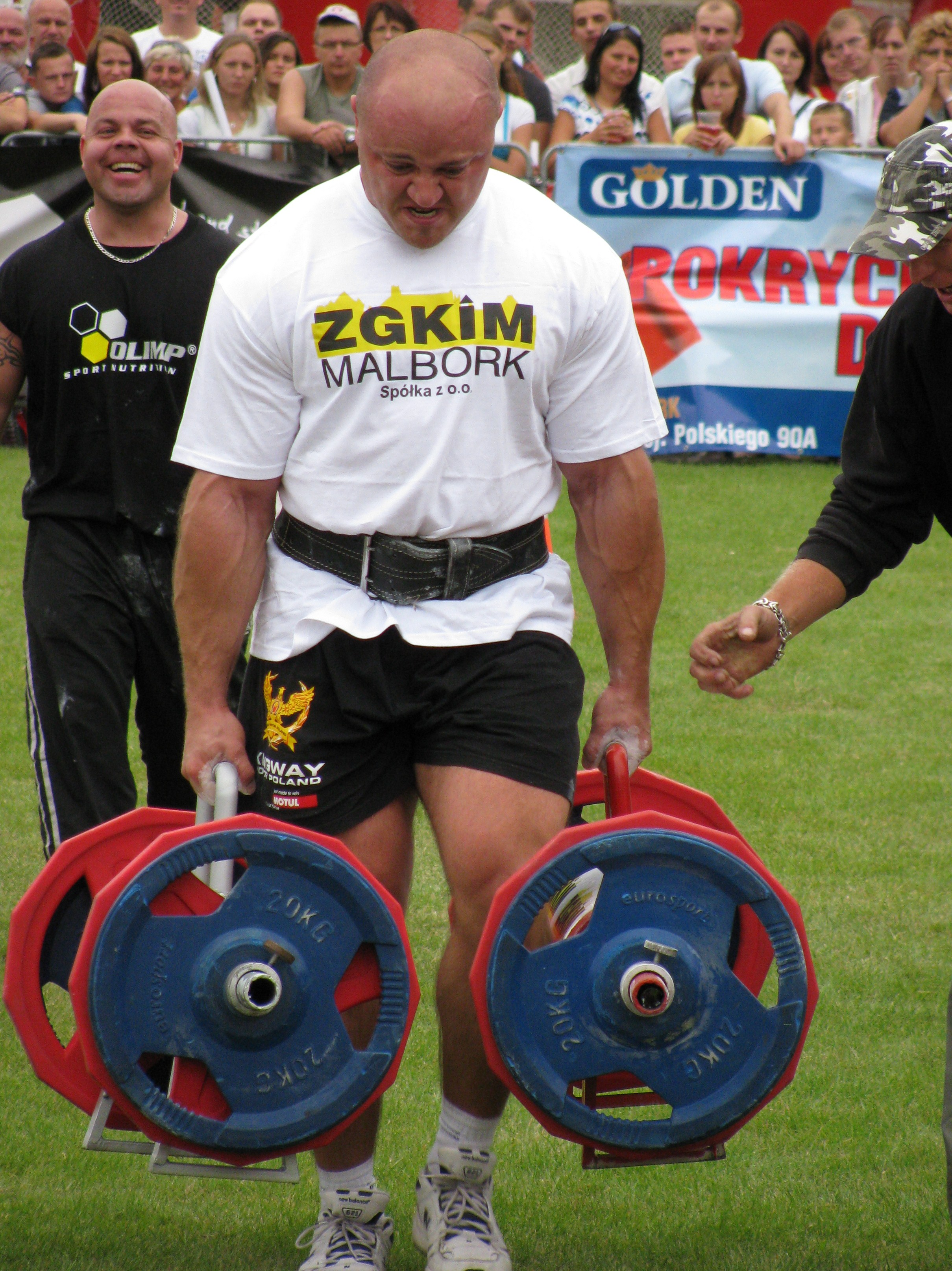 Bartlomiej Bak - a strength athlete from Poland